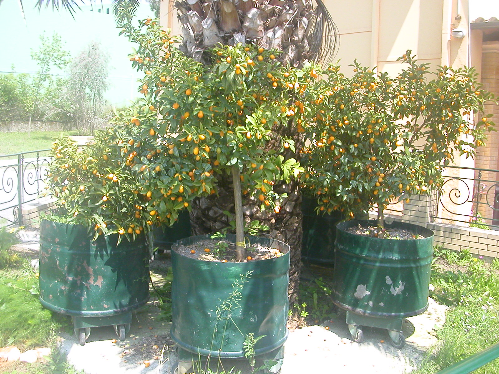 Potted kumquat trees at a kumquat distillery on Corfu. Fortunella japonica, syn: Citrus japonica, the Oval Kumquat. Photographed on 28th April 2007.